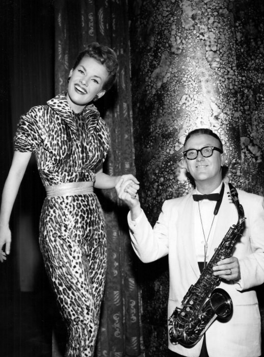 Photo of Gale Storm and bandleader/musician Billy Vaughn, who was a guest star on this episode of The Gale Storm Show. Vaughn and Storm wrote a song together, "You're My Baby Doll", which they performed on the show.